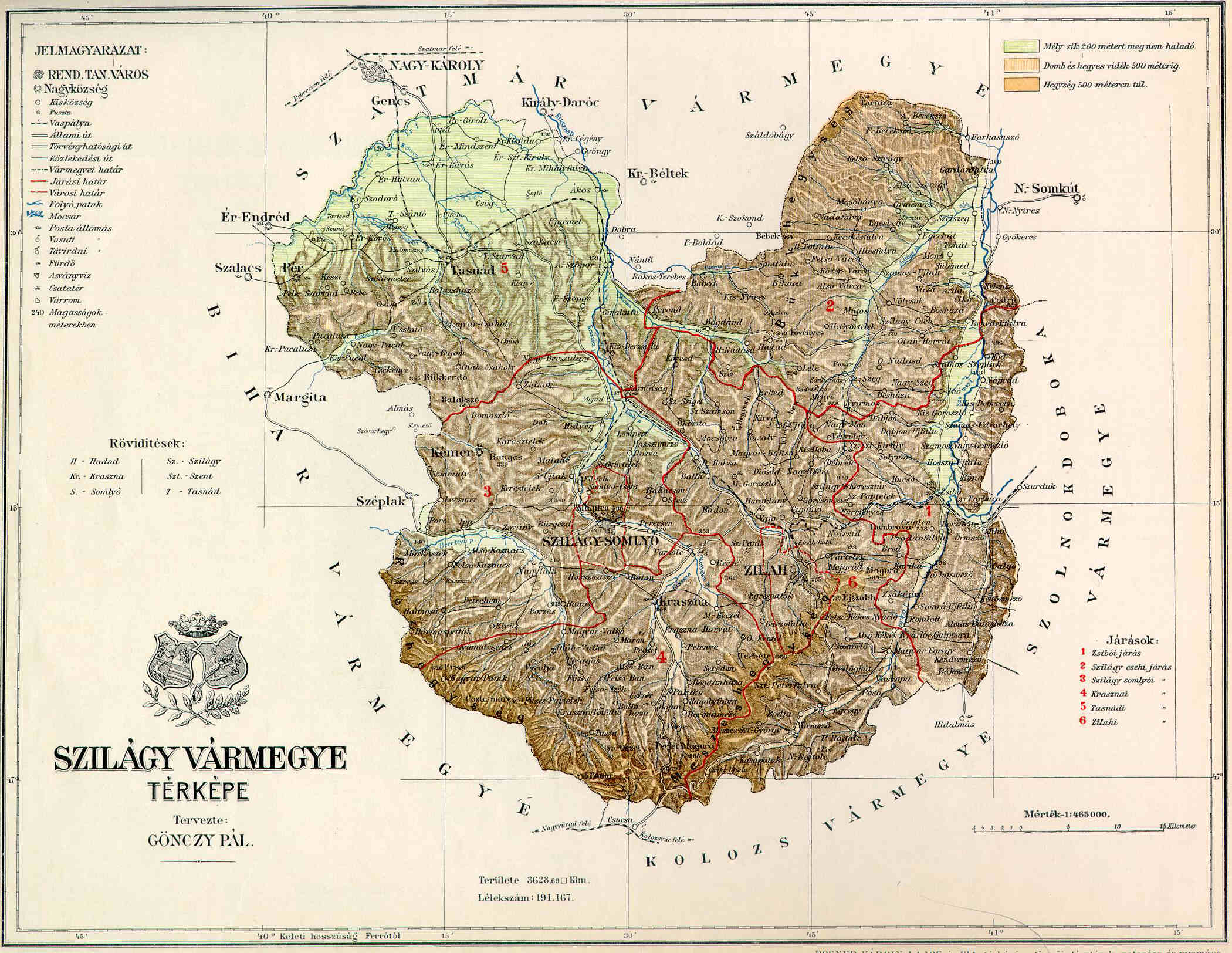 Map of Szilágy County,in the pre-Trianon Kingdom of Hungary. Komitat Szilágy w Królestwie Węgier przed traktatem w Trianon.